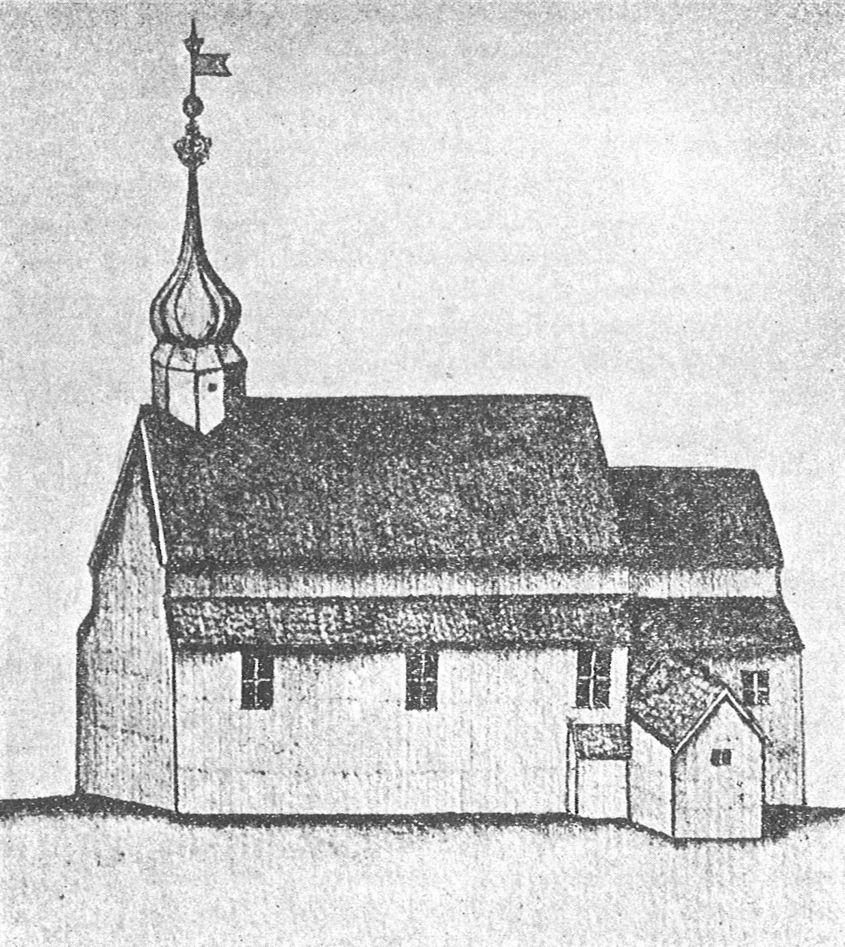 Drawing of Vinje church in Mosvik (ca 1500-1880), made by Gerhard Schøning in 1774.